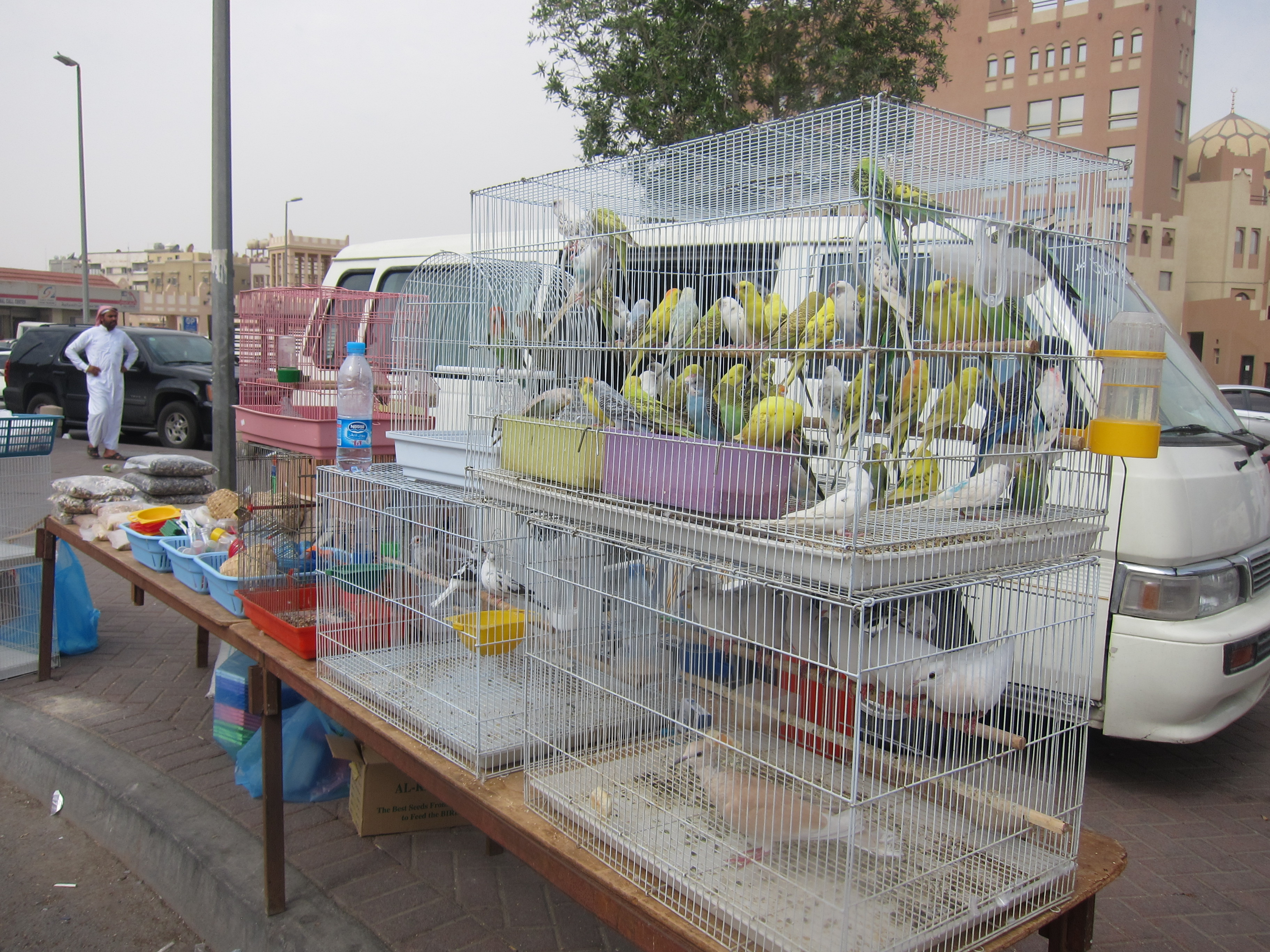 Friday Market in Dammam, Saudi Arabia വെള്ളിയാഴ്ച് വിപണി, ദമാം, സൗദി അറേബ്യ വെള്ളിയാഴ്ച് രാവിലെ മാത്രം ദമാമിൽ പ്രവർത്തിക്കുന്ന പക്ഷി-മൃഗ വിപണിയുടെ ദൃശ്യങ്ങൾ... മുയൽ, പട്ടി, പൂച്ച, നാടൻ കോഴികളും ബ്രൊയിലറും, തത്ത, പ്രാവ്, ലൗവ് ബേർഡ്സ്, കാട, ഉടുമ്പ്, എലി തുടങ്ങി എല്ലാം വിപണിയിലുണ്ടാകും...